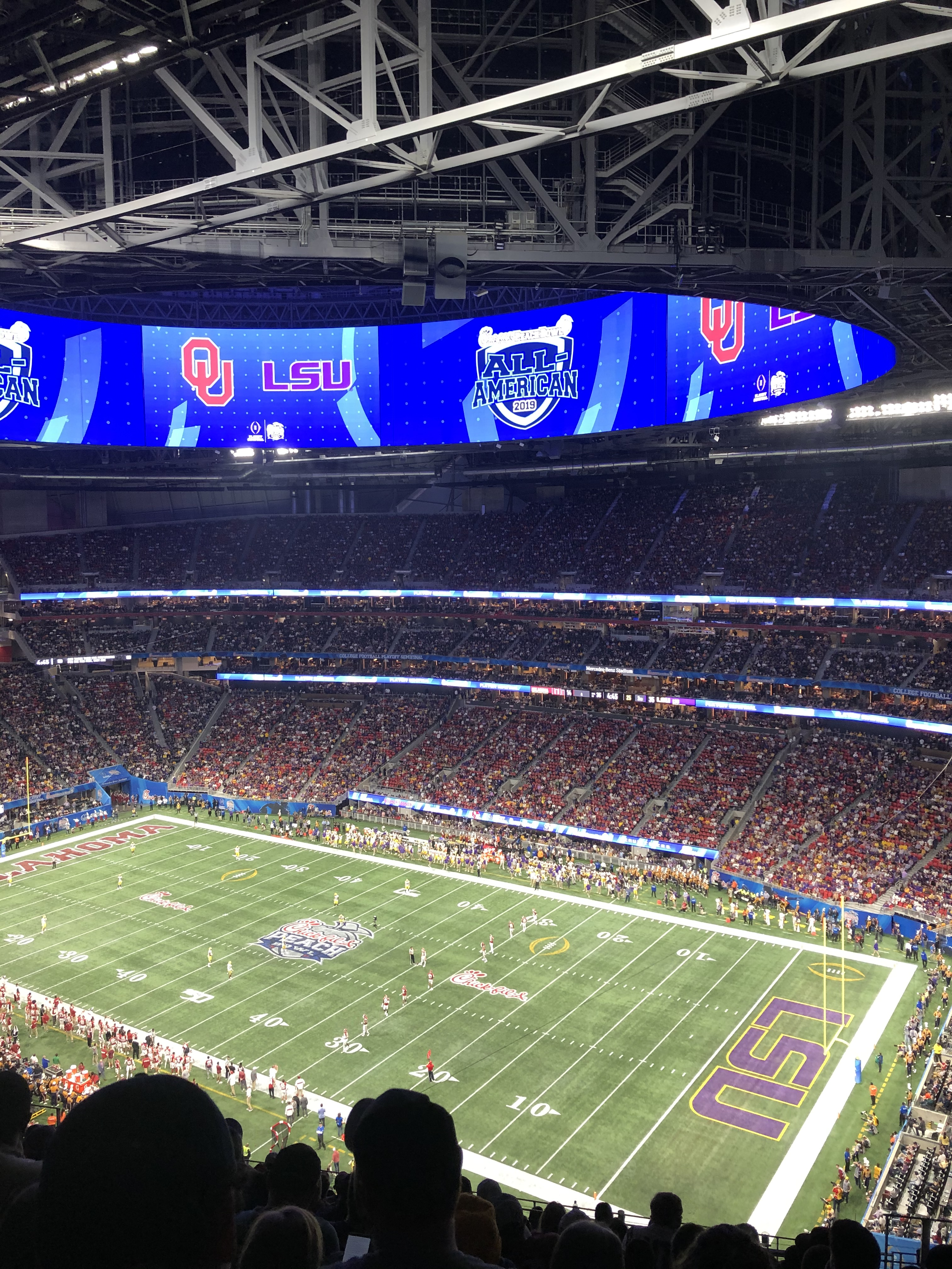 CFP Playoff at Mercedes-Benz Stadium